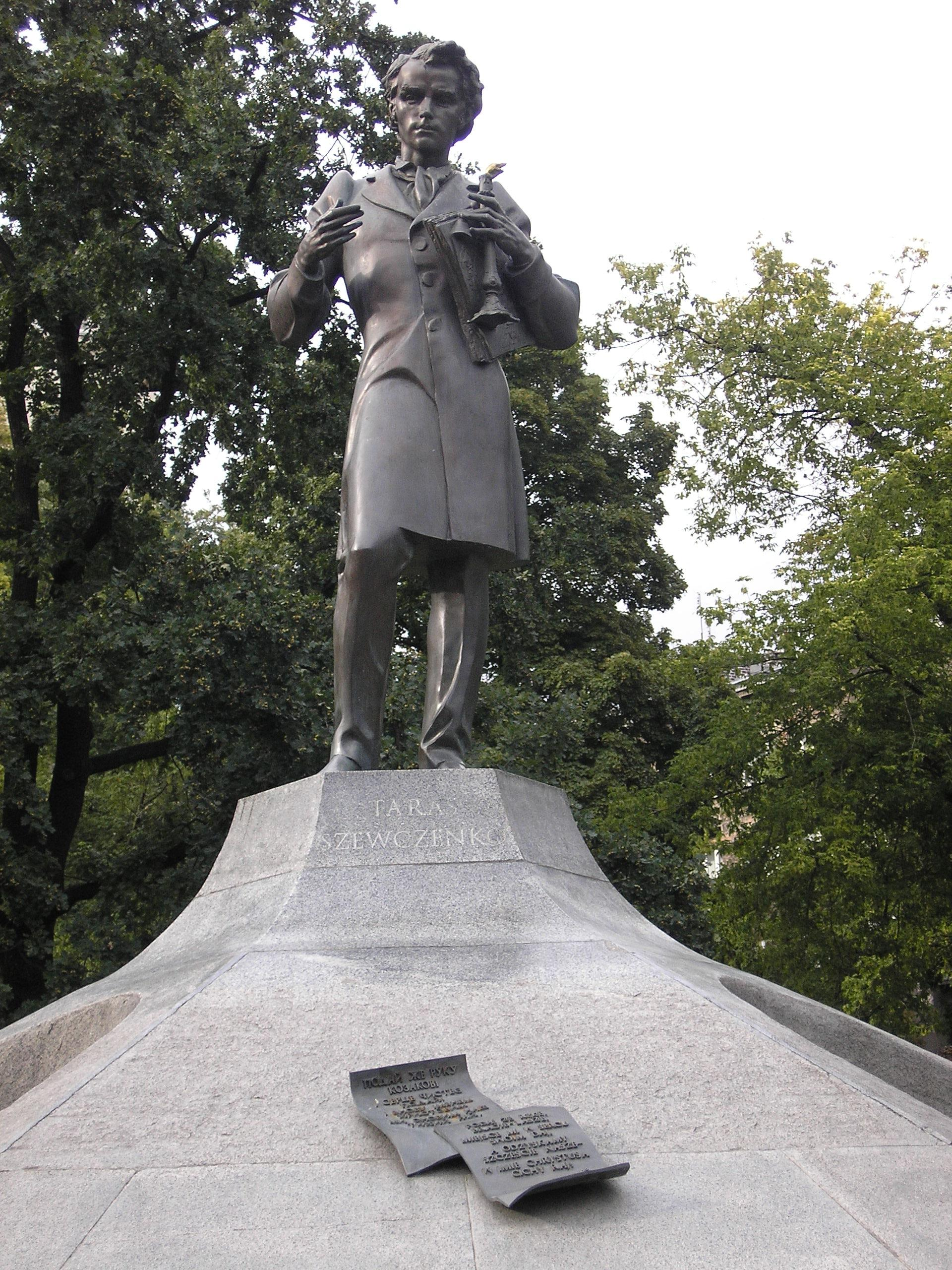 Monument of Taras Schevchenko in Warsaw